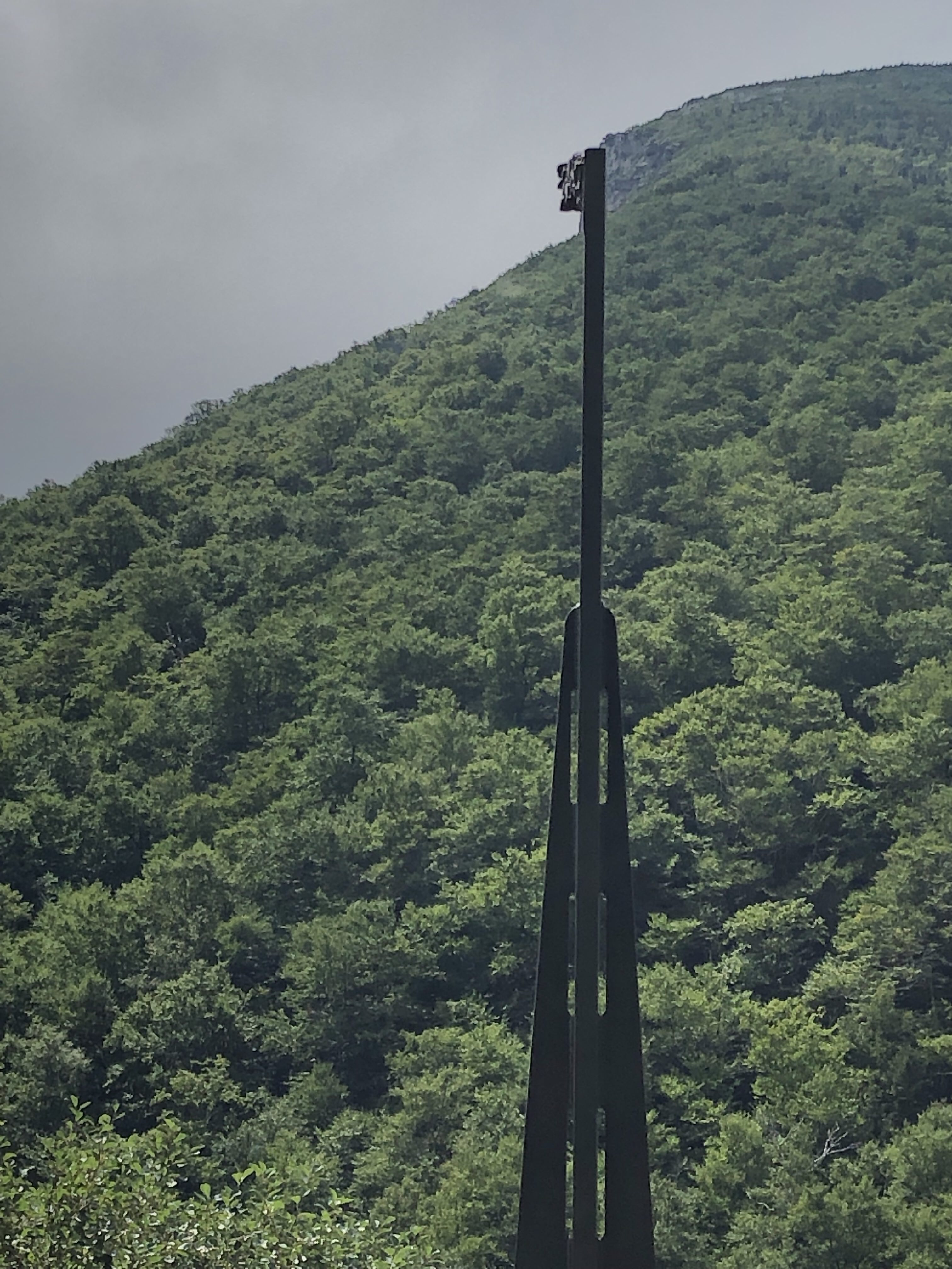 View of the Old Man of the Mountain via one of the "steel profilers" in Profiler Plaza, located in Franconia, New Hampshire.